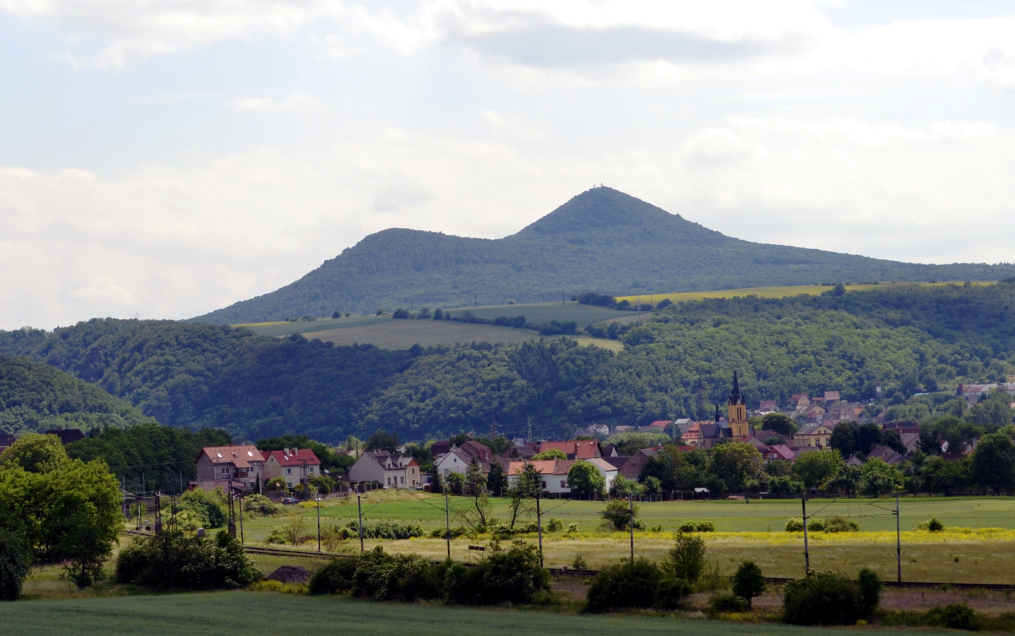 Mount Lovoš in České středohoří, the village in the foreground is Libochovany, Litoměřice district, Ústí nad Labem region, Czech Republic.